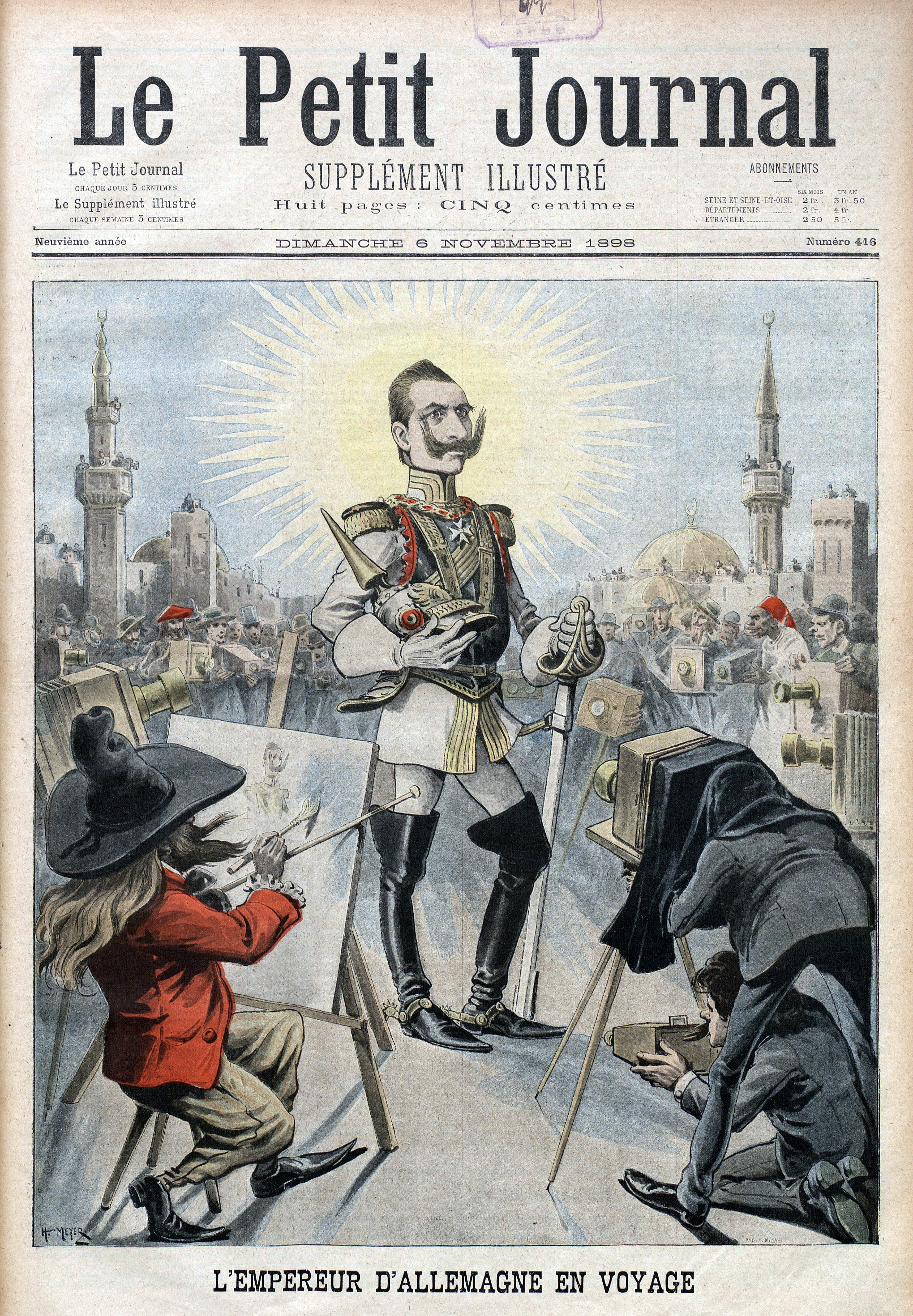 Cover of illustrated supplement of "Le Petit Journal"